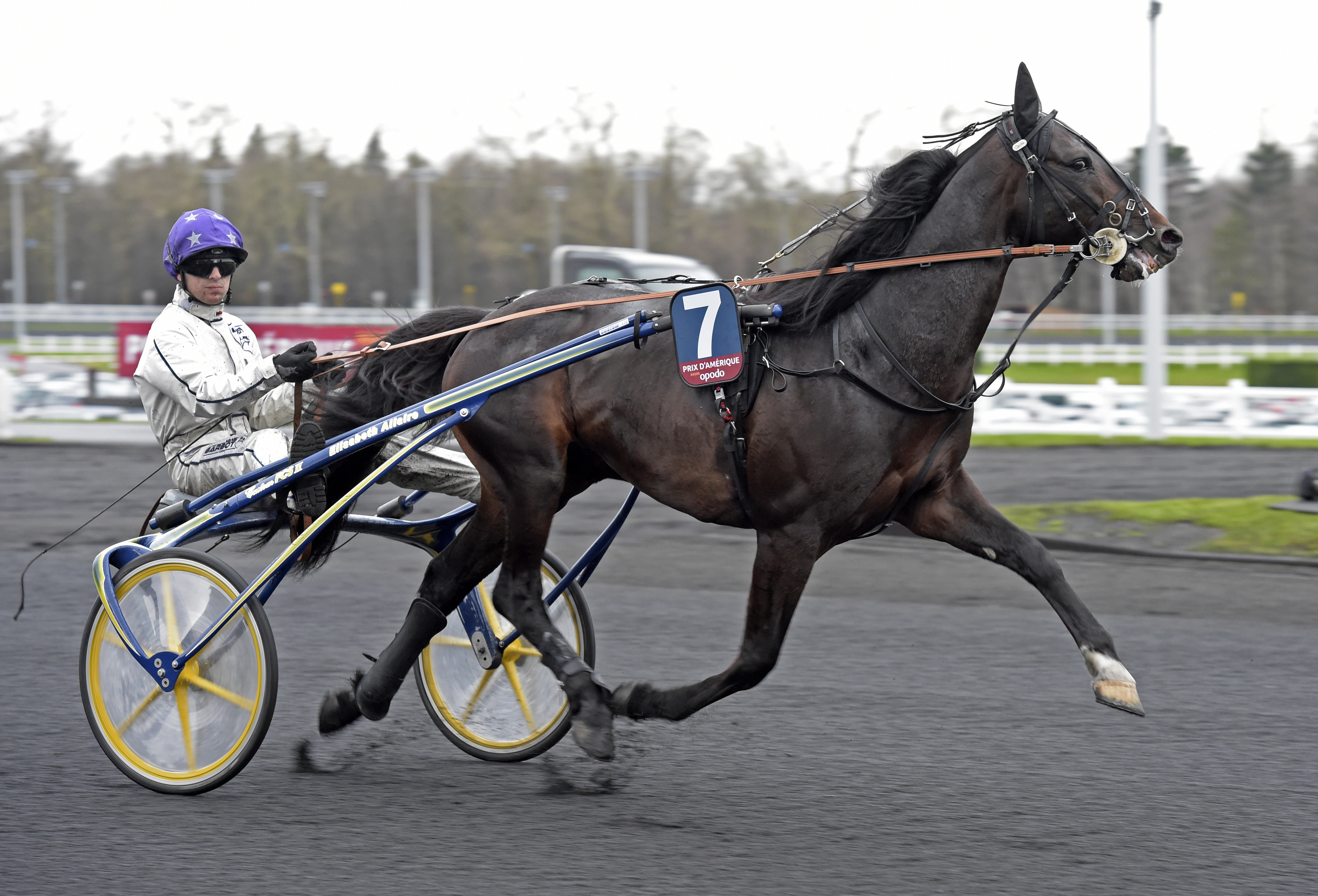 Bird Parker at Hippodrome Vincennes in January 2016.